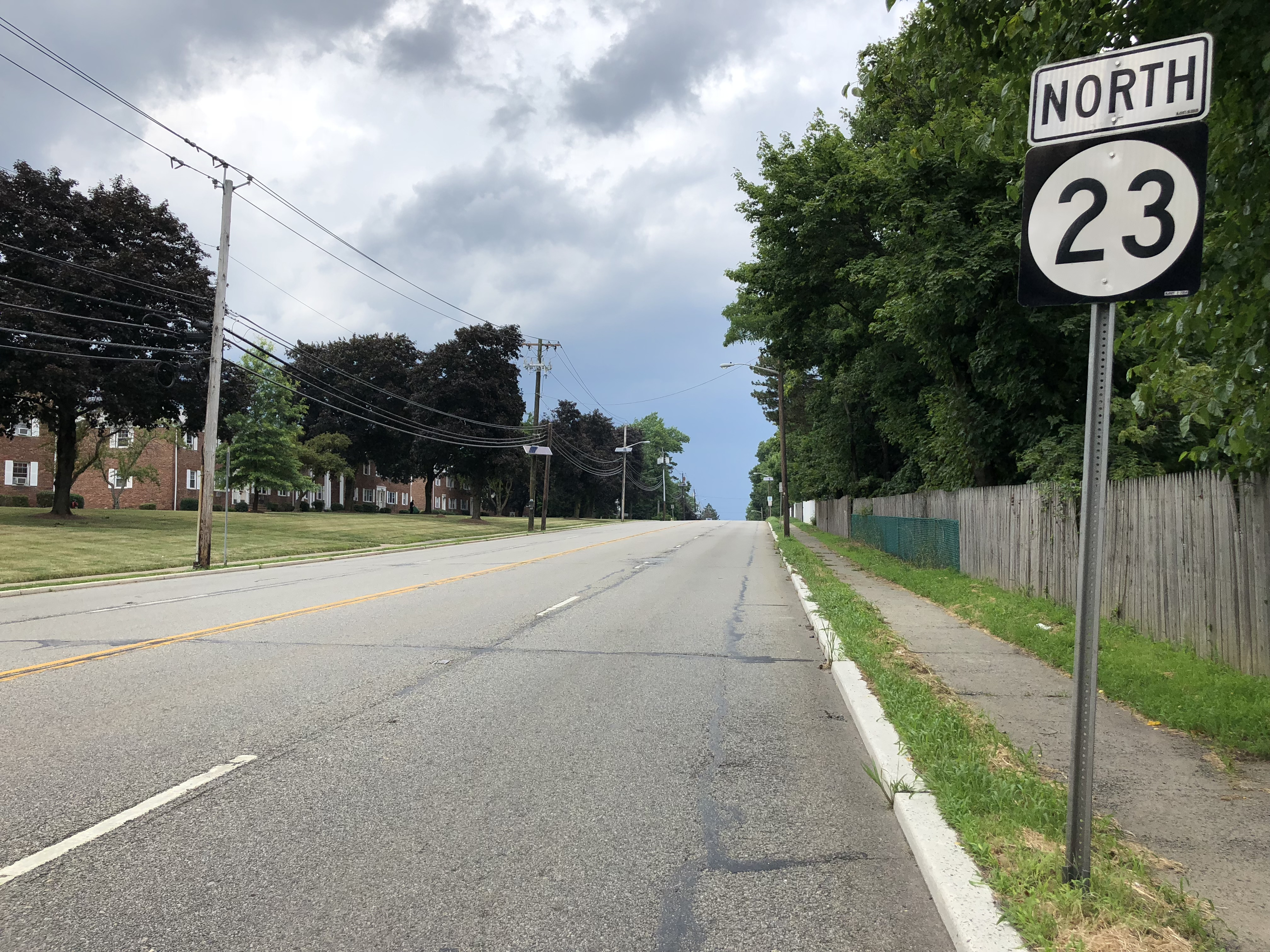 View north along New Jersey State Route 23 (Pompton Avenue) at Highland Road in Cedar Grove Township, Essex County, New Jersey